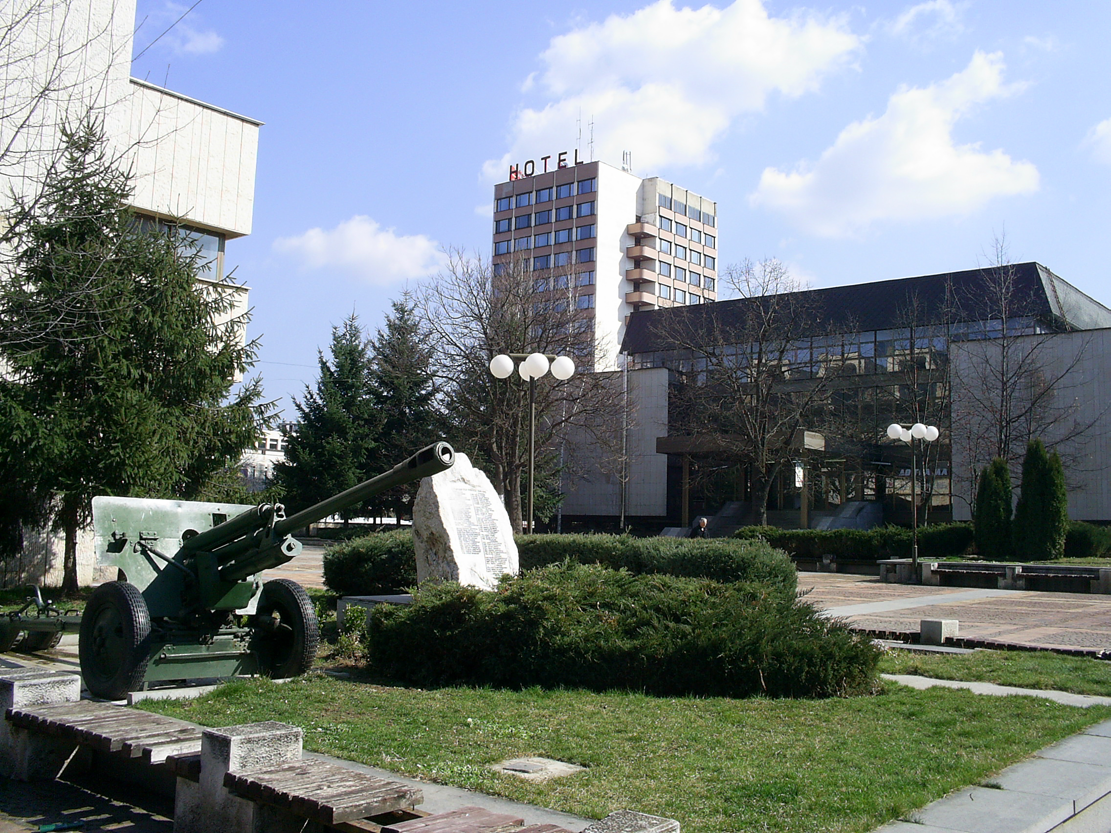 Botevgrad, Bulgaria